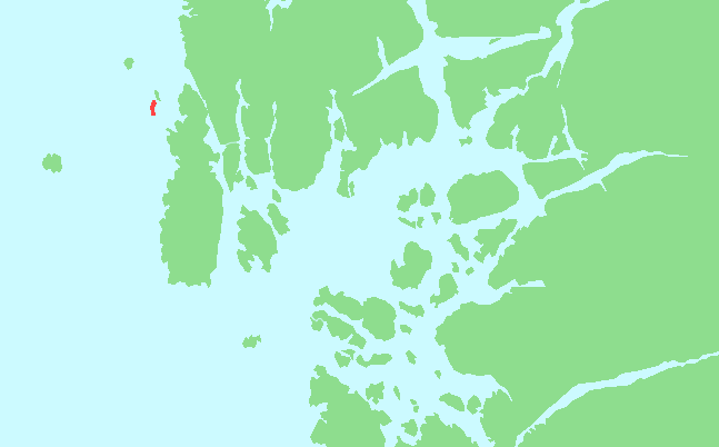 Locator map of Feøy, Hordaland, Norway